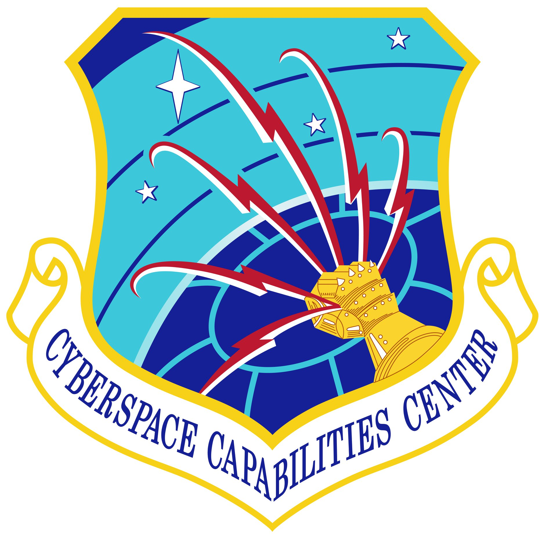 On November 7th 2019, The Air Force Network Integration Center merged with the Cyberspace Support Squadron and the 38th Cyberspace Readiness Squadron to become the Cyberspace Capabilities Center.